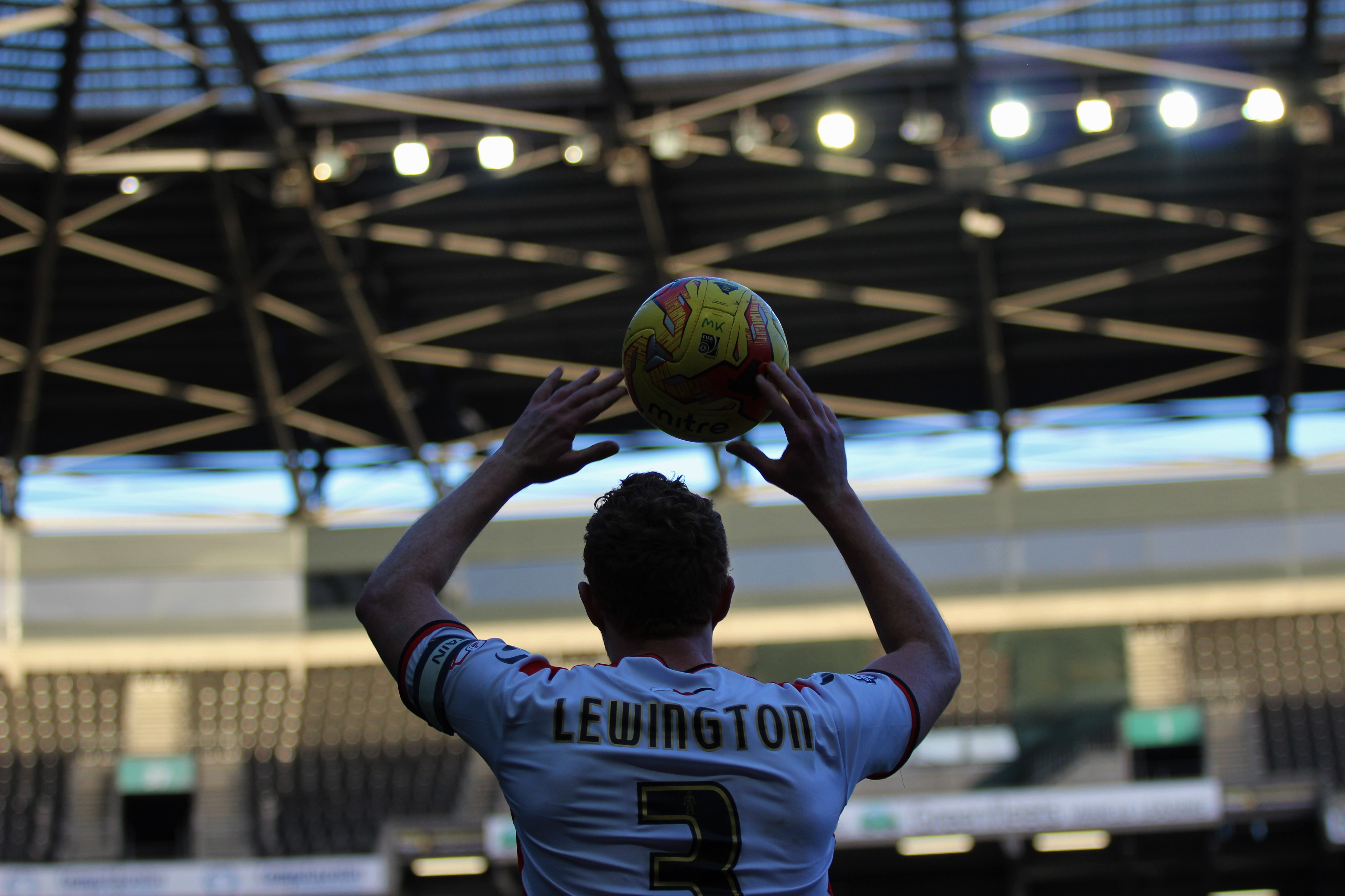 Dean Lewington of MK Dons takes a throw in during the League 1 match against Barnsley